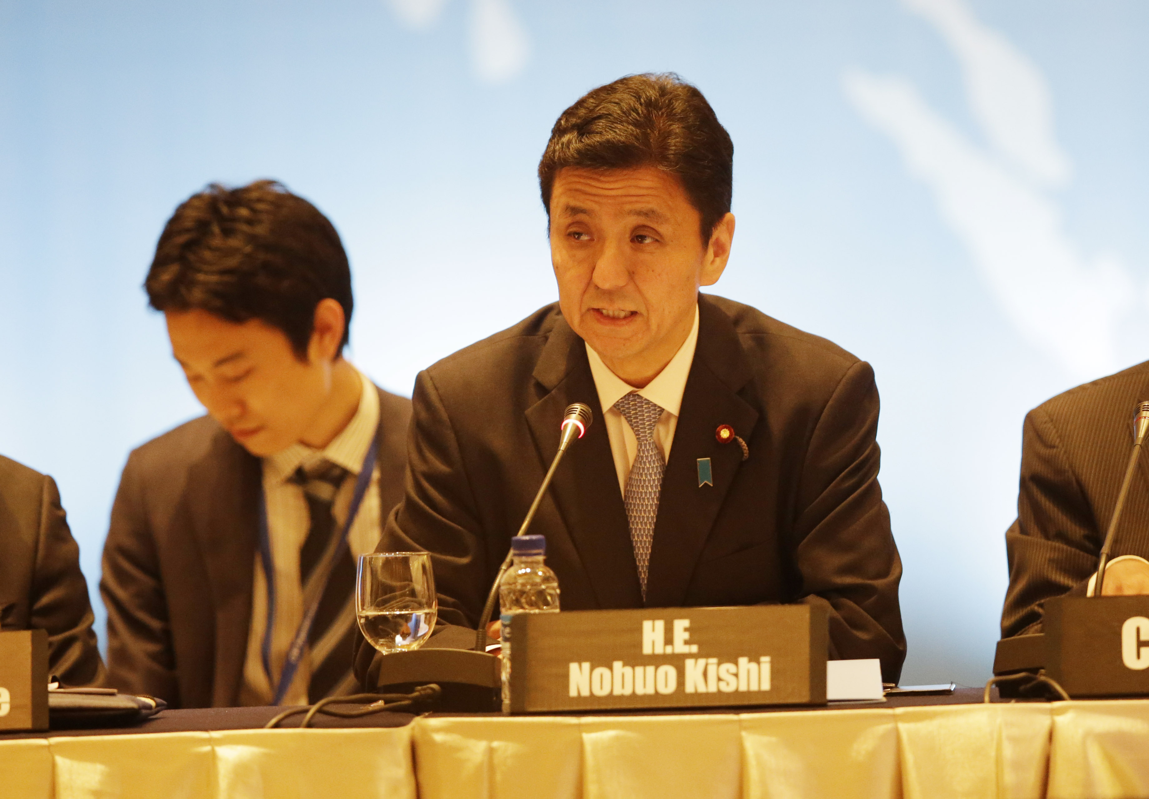 Nobuo Kishi, Senior Vice-Minister for Foreign Affairs, delivered his speech at the Regional Conference of the Comprehensive Nuclear-Test-Ban Treaty in Jakarta City, Jakarta Special Capital Region on May 19, 2014.